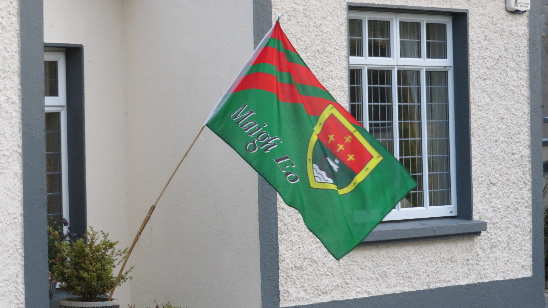 The flag of County Mayo (Maigh Eo in Irish) flies outside a house in Mayo in Ireland on the day of the 2017 All-Ireland Senior Football Championship Final